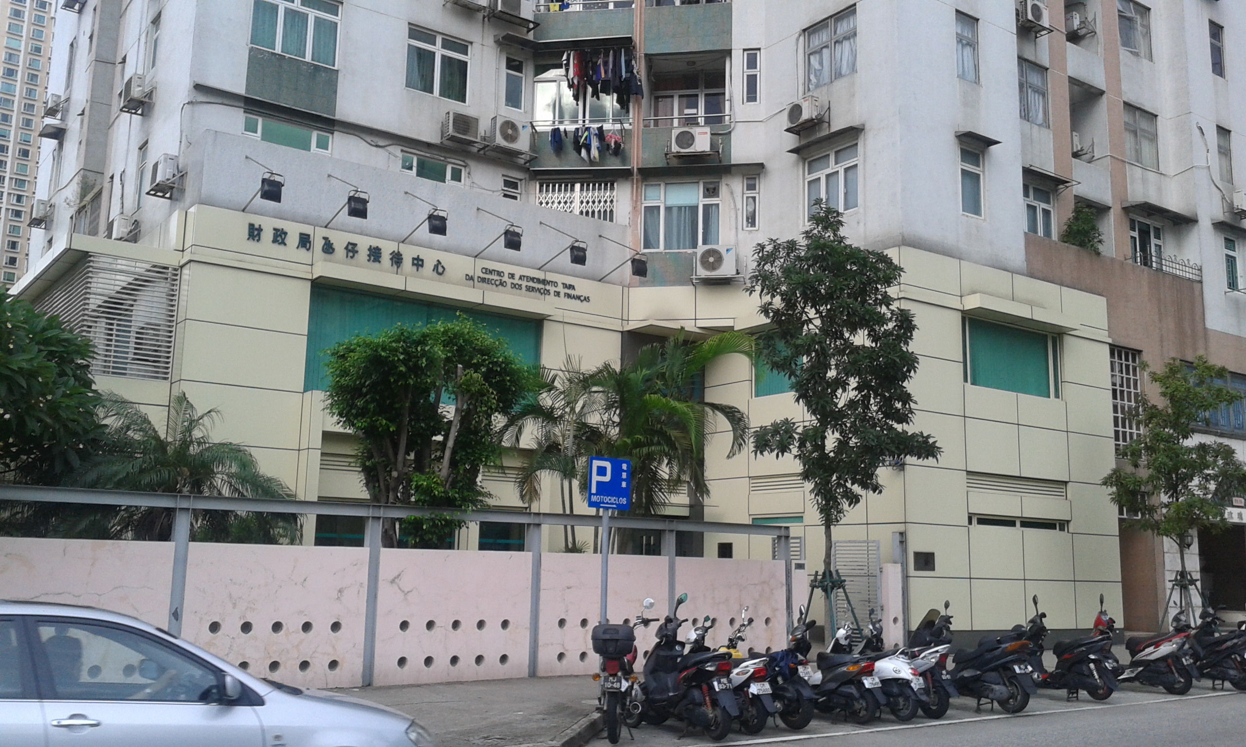 DSF Taipa Service Centre